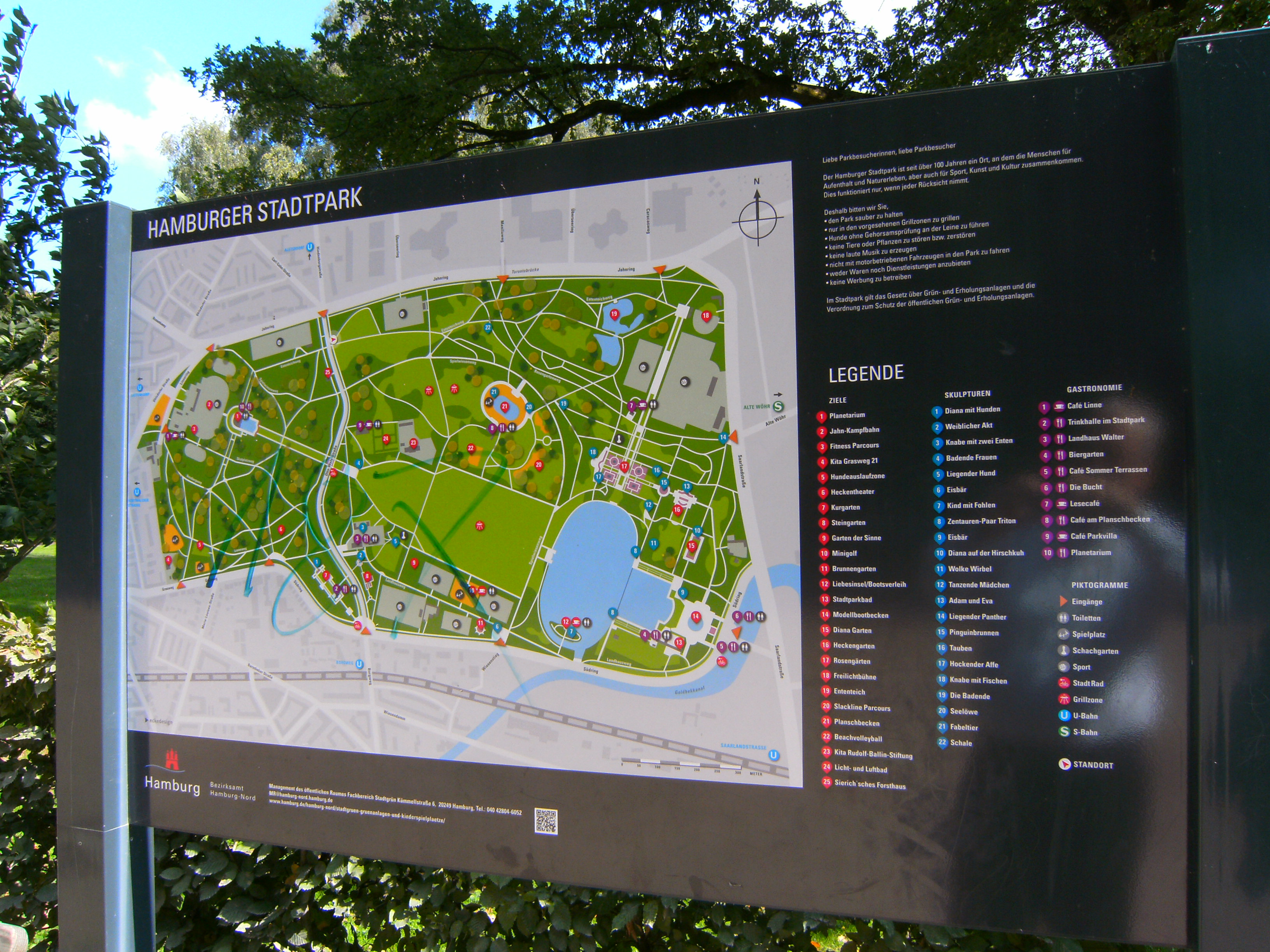 Hamburg, Germany, Hamburger Stadtpark (urban park in Hamburg). Map: Location of sculptures marked by numbers in blue point.